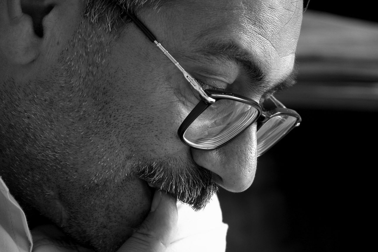 M.sadri is an iranian journalist who works for Hamshahri and Donya-e-Eqtesad daily(international section)